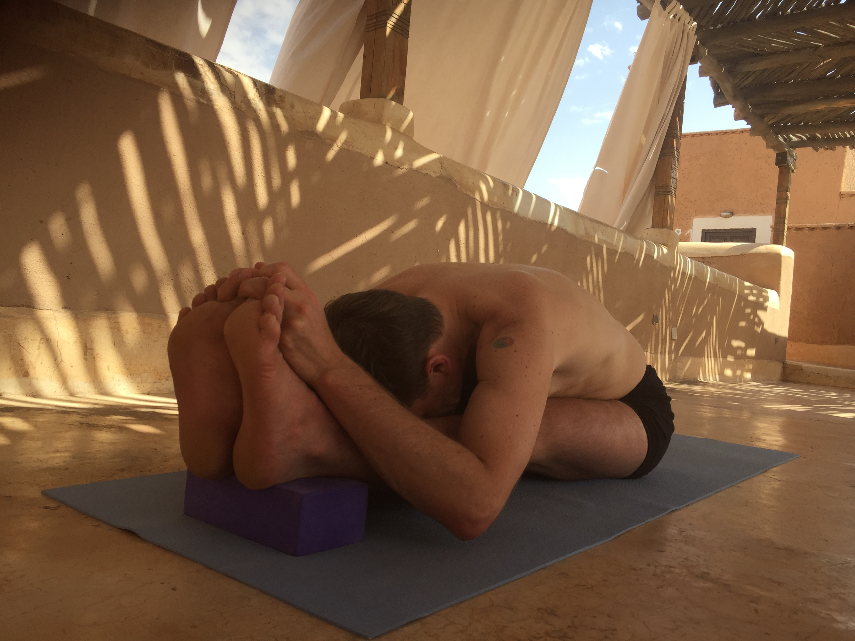 Jim in paschimottanasana